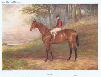 Racehorses No.01: Caricature of Minoru, champion racehorse. Caption reads: "Minoru"